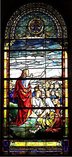 Mosaic glass window on East side of Stanford Memorial Church. Stanford, California, USA. The window is made by Frederick S. Lamb (1863-1928), who based his work on oil paintings by Antonio Paoletti (1834-1912).